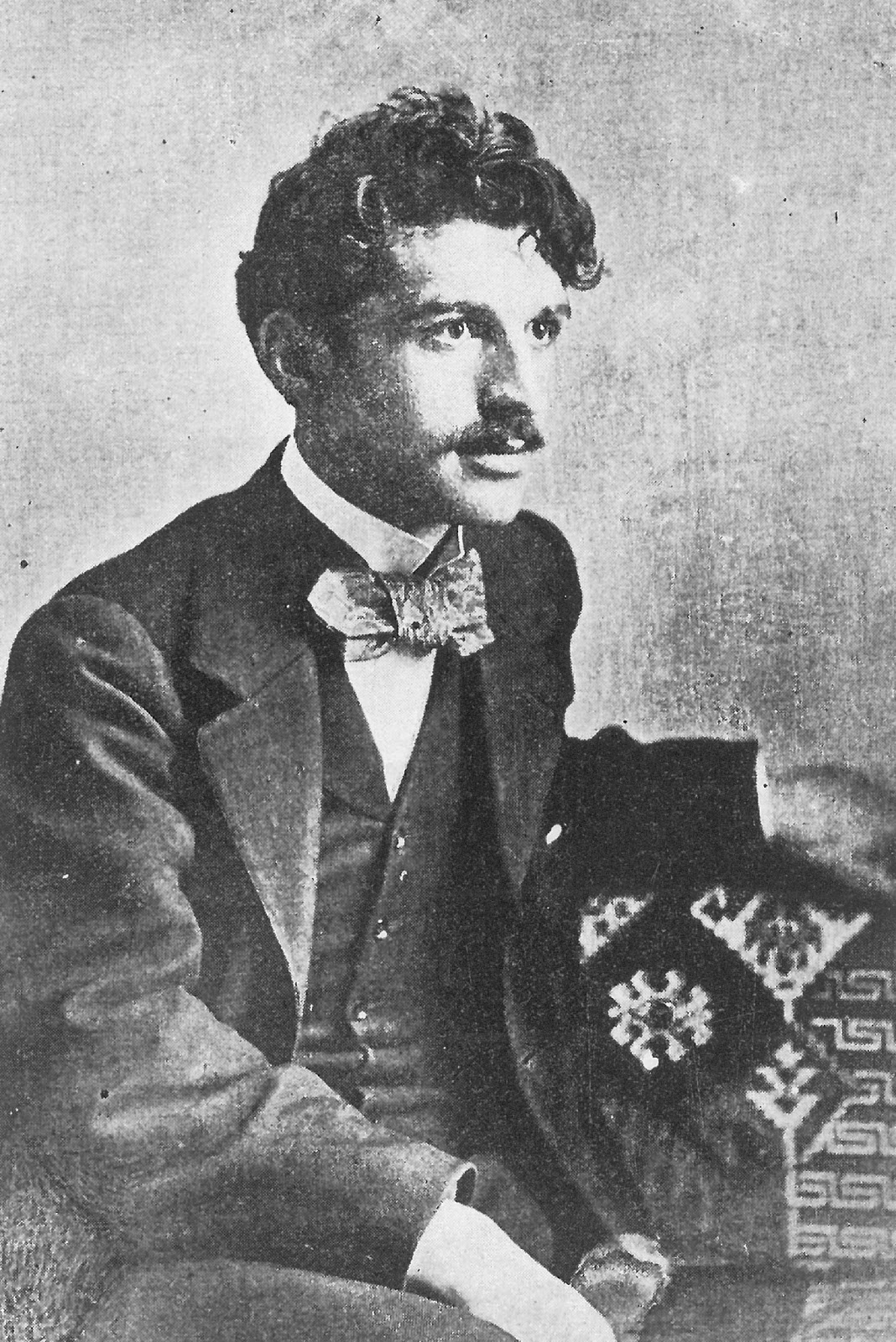 Zacharias Papantoniou was a Greek writer. He was born in Karpenissi of Evrytania in February 1877 and died in Athens in 1940.